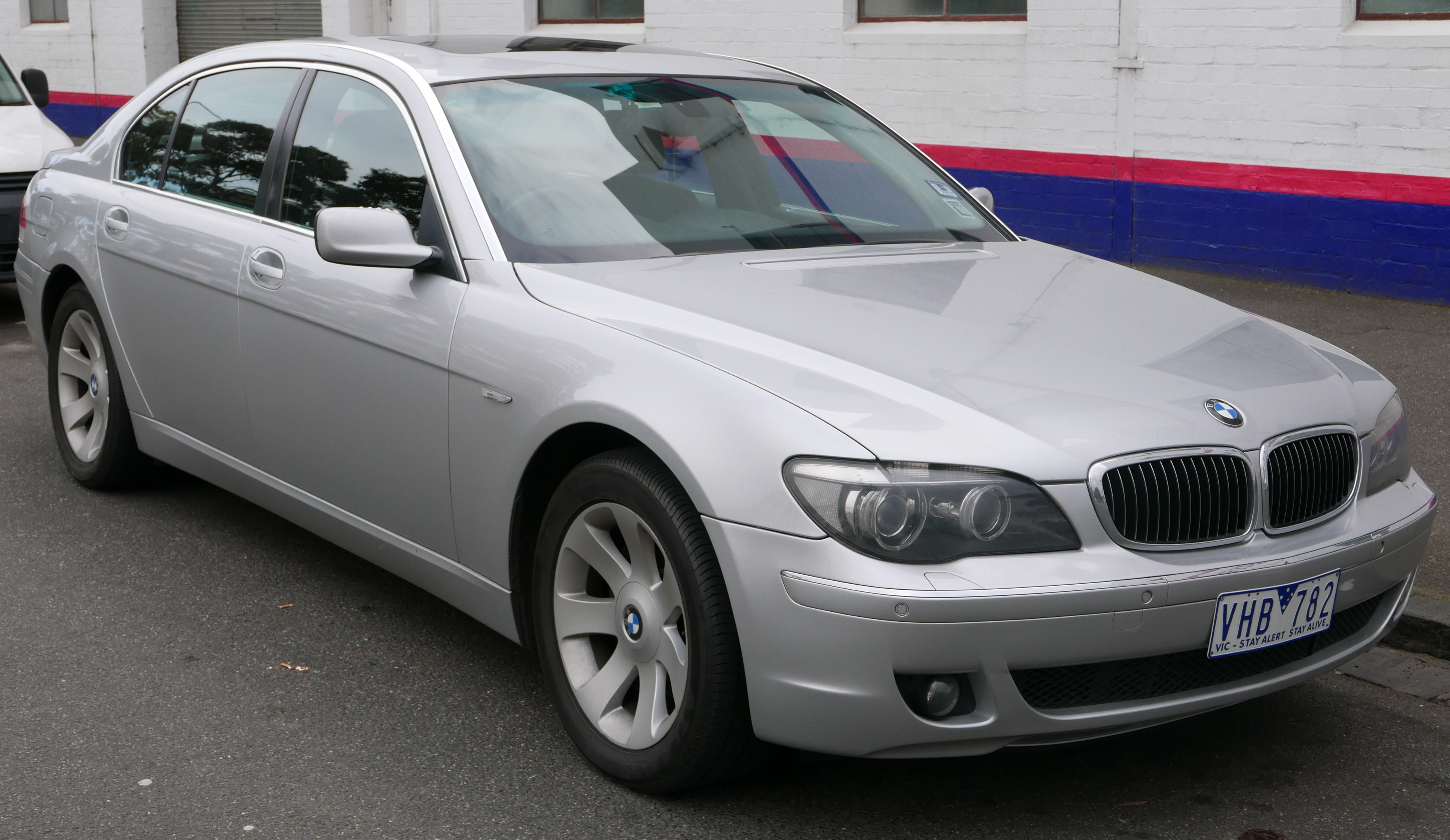 2005 BMW 740Li (E66) sedan. Despite the date discrepancy between the description and the vehicle registration information below, a check of the VIN reveals a "production date" of 28 October 2005. Photographed in West Melbourne, Victoria, Australia. Vehicle registration enquiry resultsJurisdictionVictoriaRegistrationVHB782Chassis codeWBAHN62080DN55479Engine code52253652Compliance date2006-01Year of manufacture2006